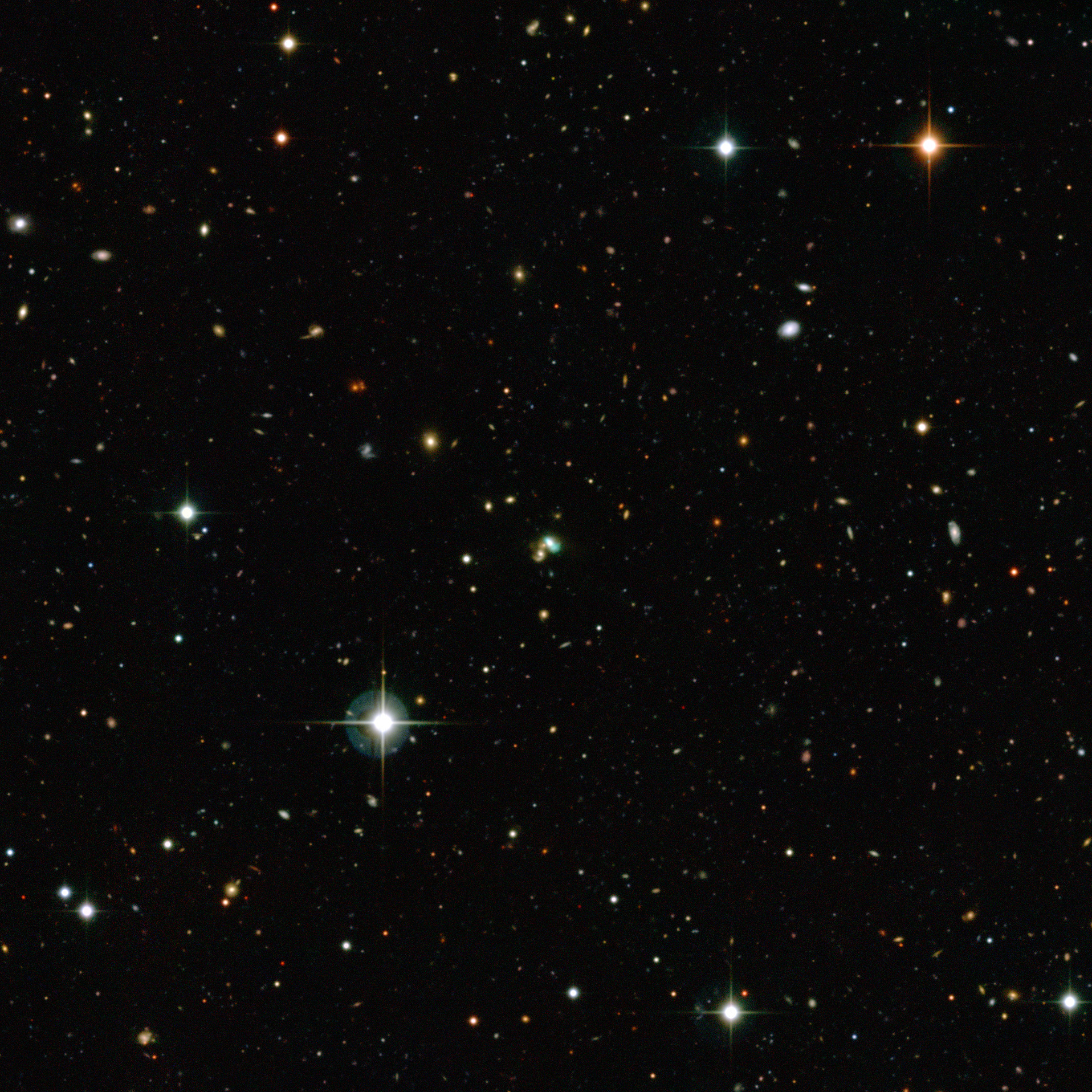 This view from the Canada-France-Hawaii Telescope shows thousands of galaxies in the distant Universe. But the one close to the centre looks very odd — it is bright green. This very unusual object is known as J224024.1−092748 or J2240 and it is a bright example of a new class of objects that have been nicknamed green bean galaxies. Green beans are entire galaxies that are glowing under the intense radiation from the region around a central black hole. J2240 lies in the constellation of Aquarius (The Water Bearer) and its light has taken about 3.7 billion years to reach Earth.